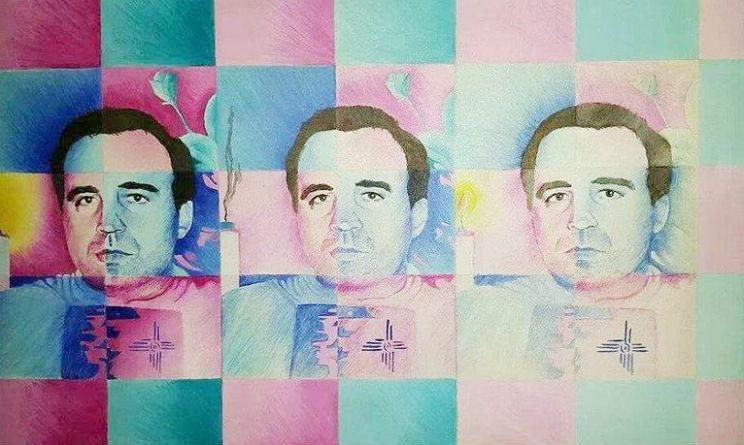 don Giuseppe (o Peppe) Diana, olio su tela di G. Guida, 2010